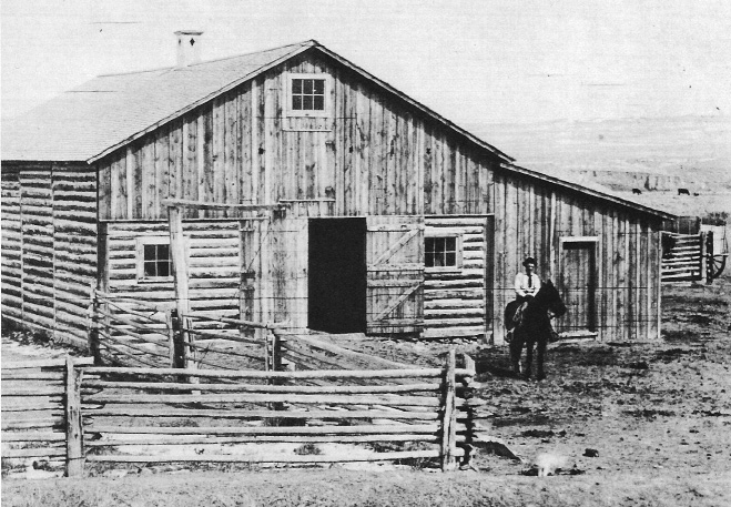 Barn at the TA Ranch, site of the Johnson County War.